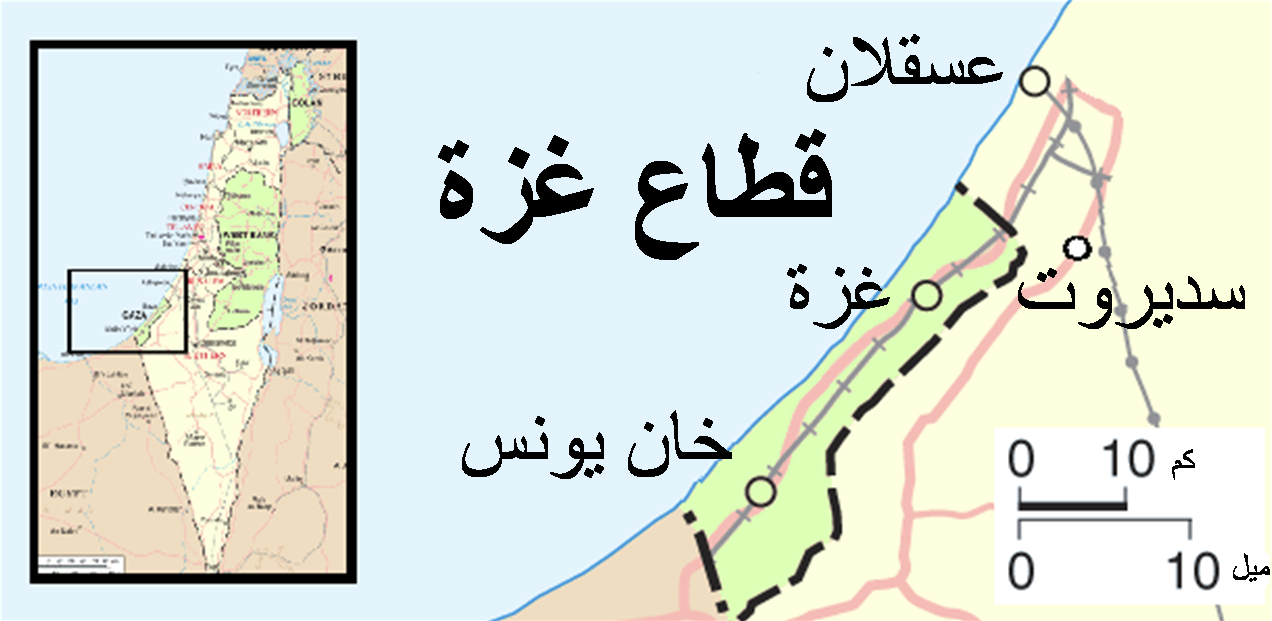 Map of the conflict area around the Gaza strip - Arabic Translation